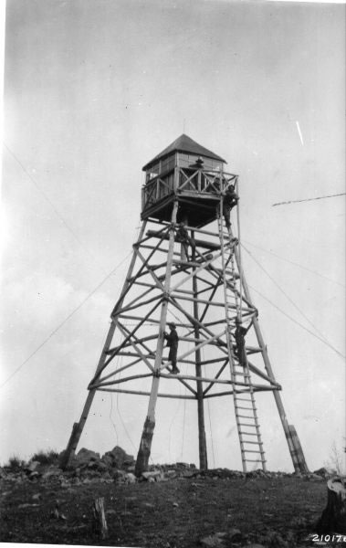 n.d.—Hillboro Peak lookout in the mid-1920's. Photo by Unknown FS #21076